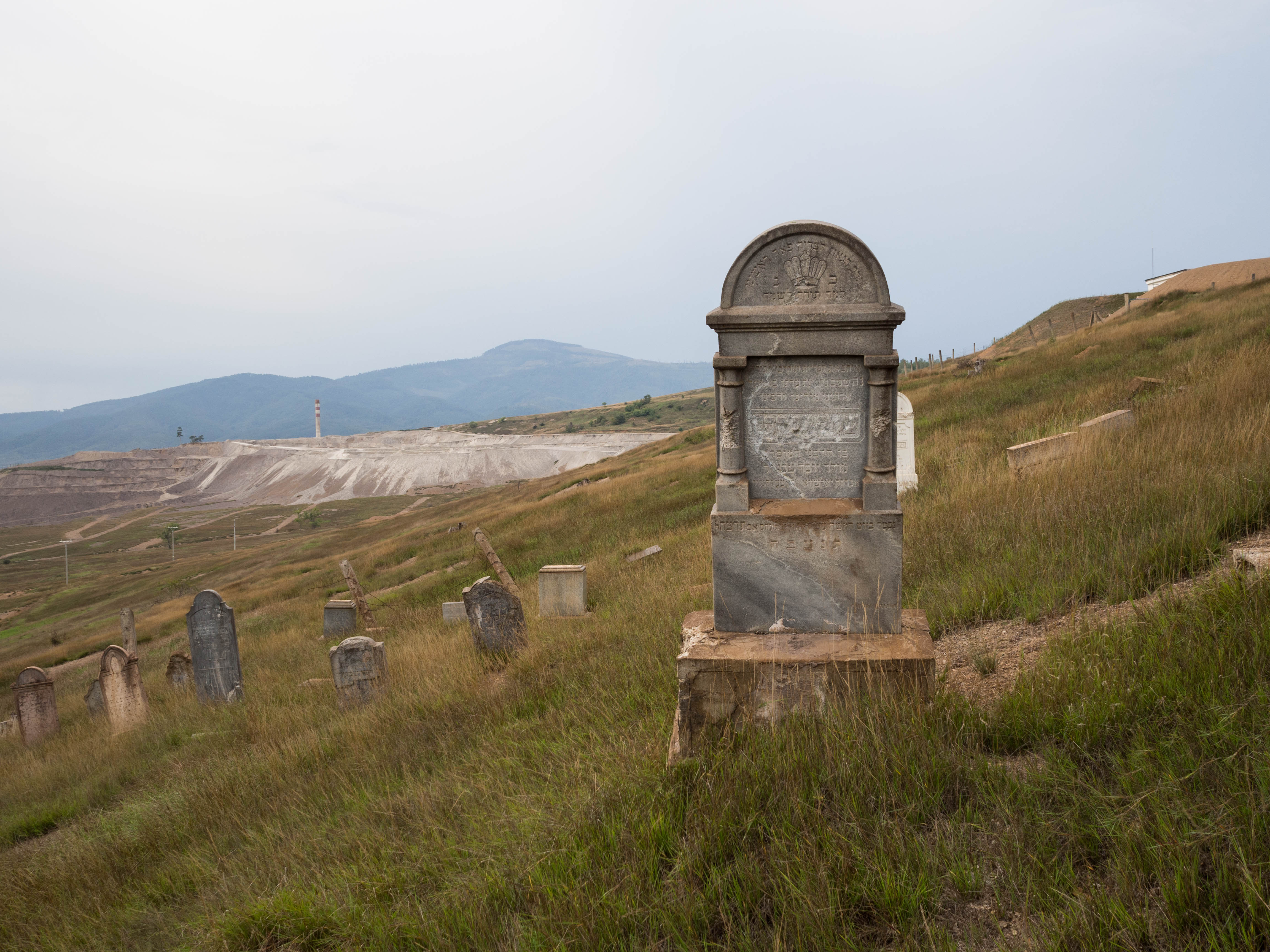 Jewish cemetery in Jelšava, Slovakia.